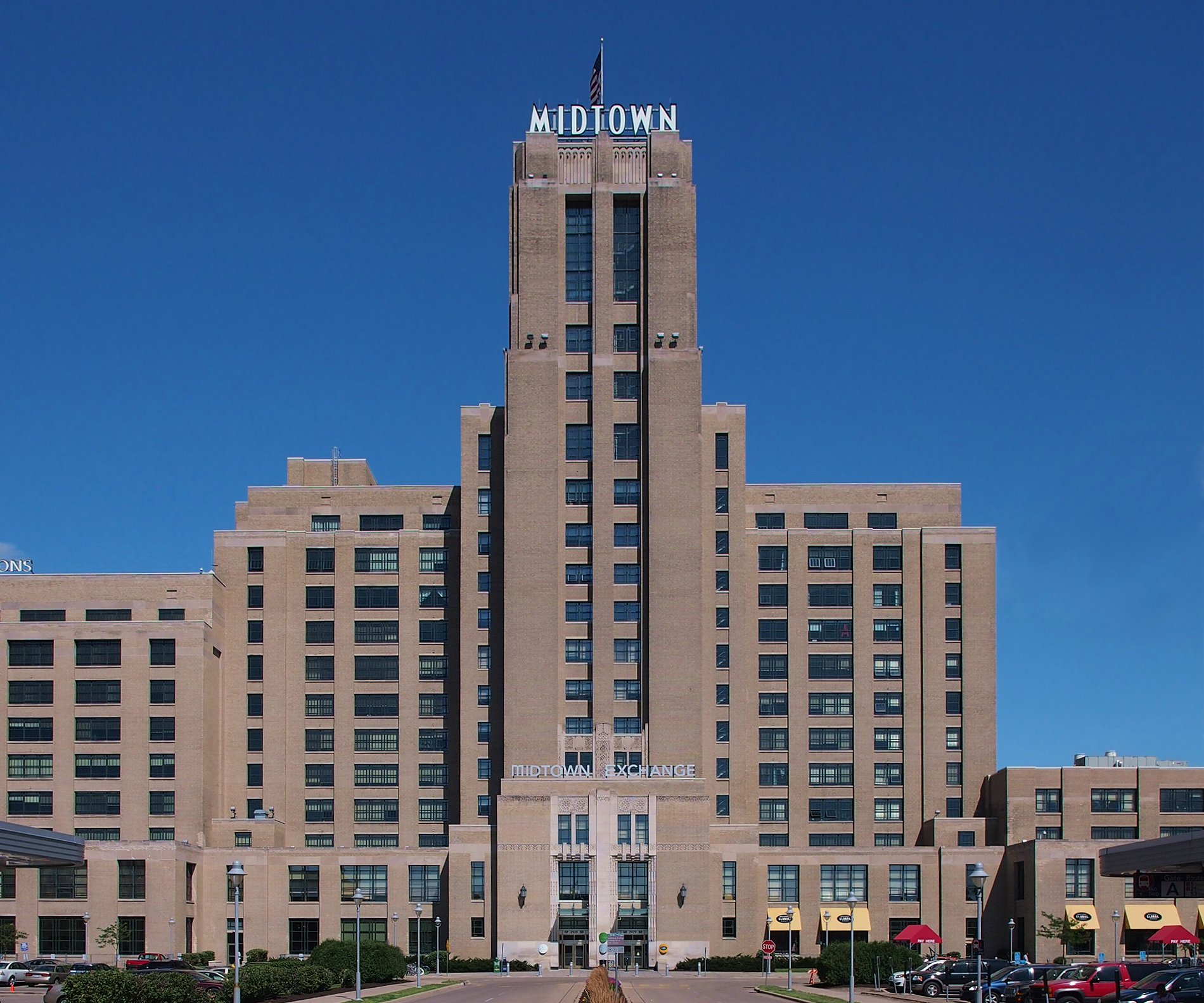 Midtown Exchange, 2929 Chicago Ave S, Minneapolis, Minnesota, USA. Viewed from the west.